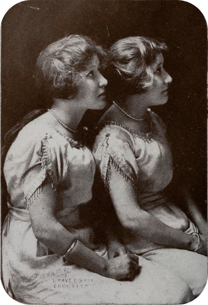 Actresses Alice Nash and Edna Nash, also known as the Vitagraph Twins